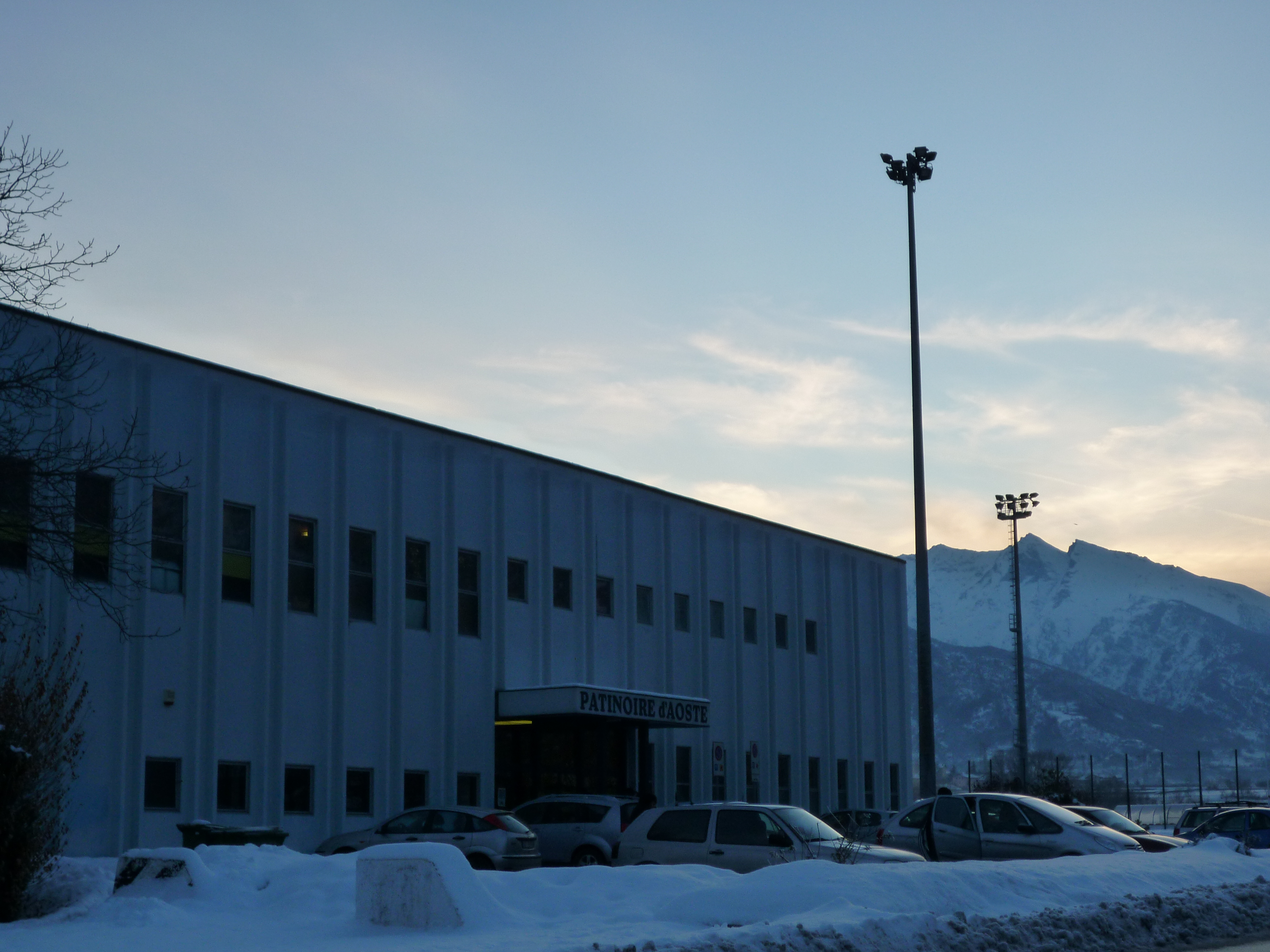 Ice arena (patinoire) in Aosta-Aoste (Italy)